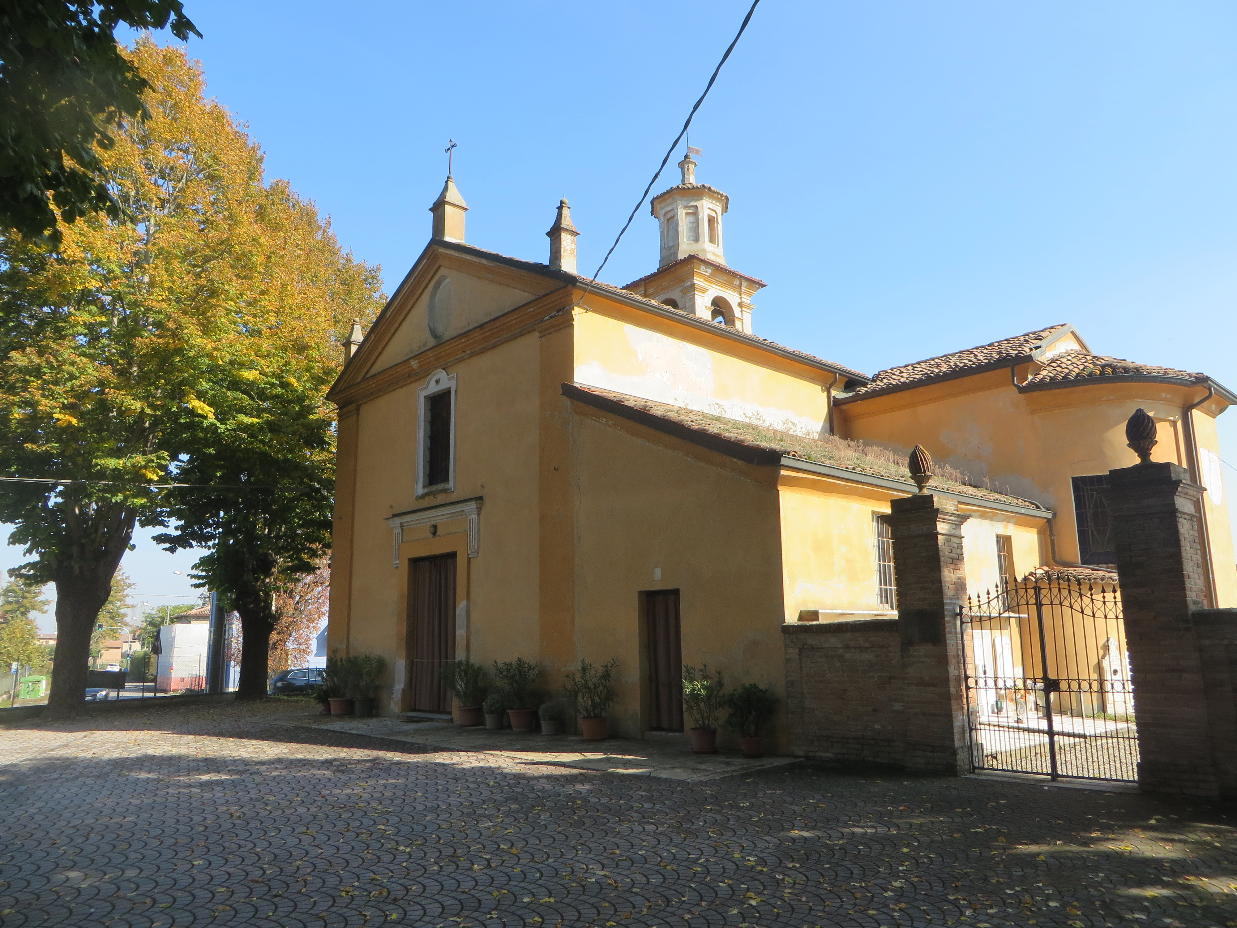 San Secondo Parmense Saint Peter Church